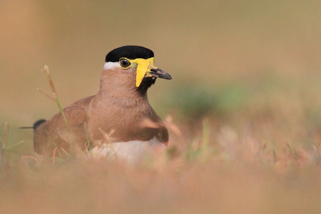 YELLOW-WATTLED LAPWING @ Ameenpur lake